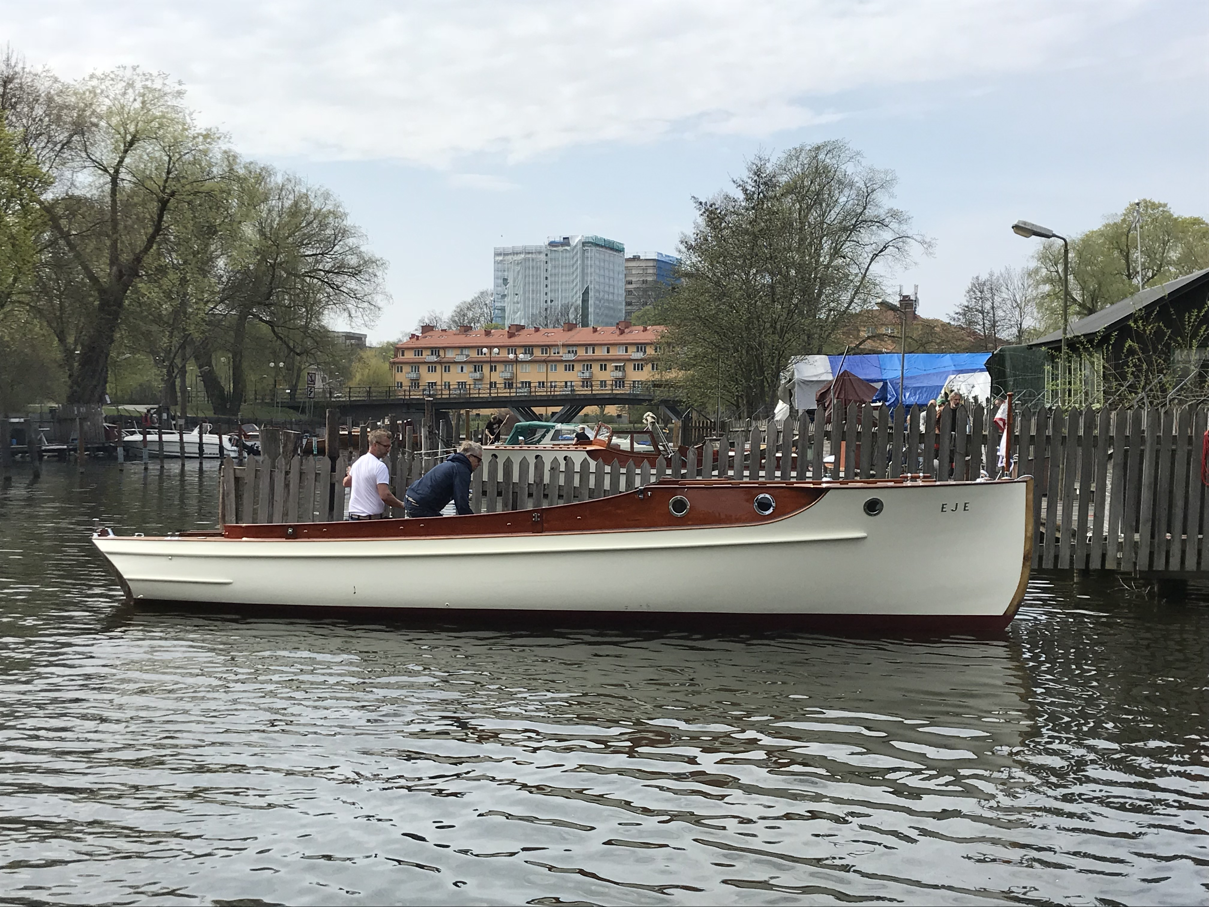 M/Y Eje from around 1932-1936 designed by C G Pettersson, April 27, 2019